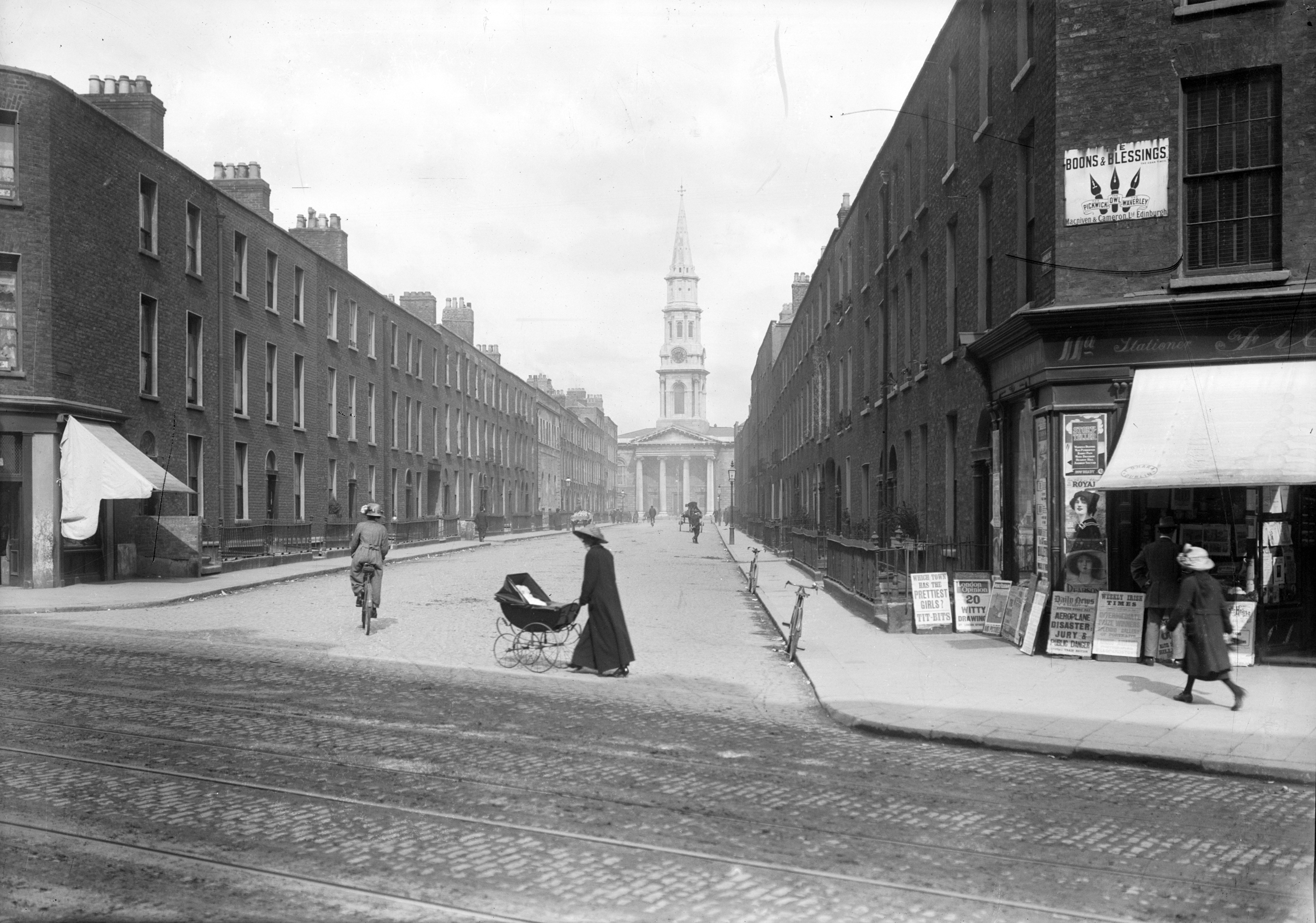 And here's the view from around the corner on North Frederick Street and Hardwicke Street, Dublin with St. George's Church at the end of the street. The shop on the corner is - Mrs M. Fields, stationer and newsagent, 11a North Frederick Street (now Staffords Funerals) on corner of Hardwicke Street - shop details per Alex Thom's Post Office Dublin Directory and Calendar for 1918 volume II. Unsure of date, but must have been after 1905, as there are Irish Independent news posters outside Field's... And can't quite make out the time on the clock - 1 o'clock? 2 o'clock? swordscookie has voted in answer to the Tit-Bits (which he calls a bastion of intellectualism) news poster question: "Which Town has the Prettiest Girls?" and he's gone for Limerick... Date: Circa 1912? NLI Ref.: EAS_1689